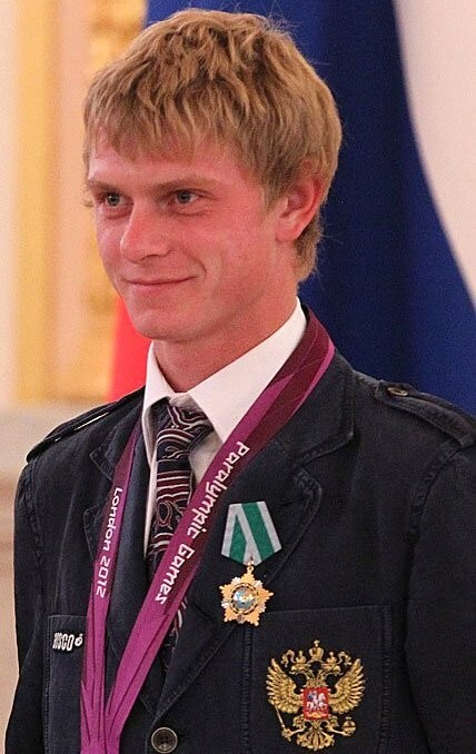 Presenting state decorations to London Paralympic Games champions and medallists. Order of Friendship presented to XIV Paralympic Games champion Alexander Kuligin.